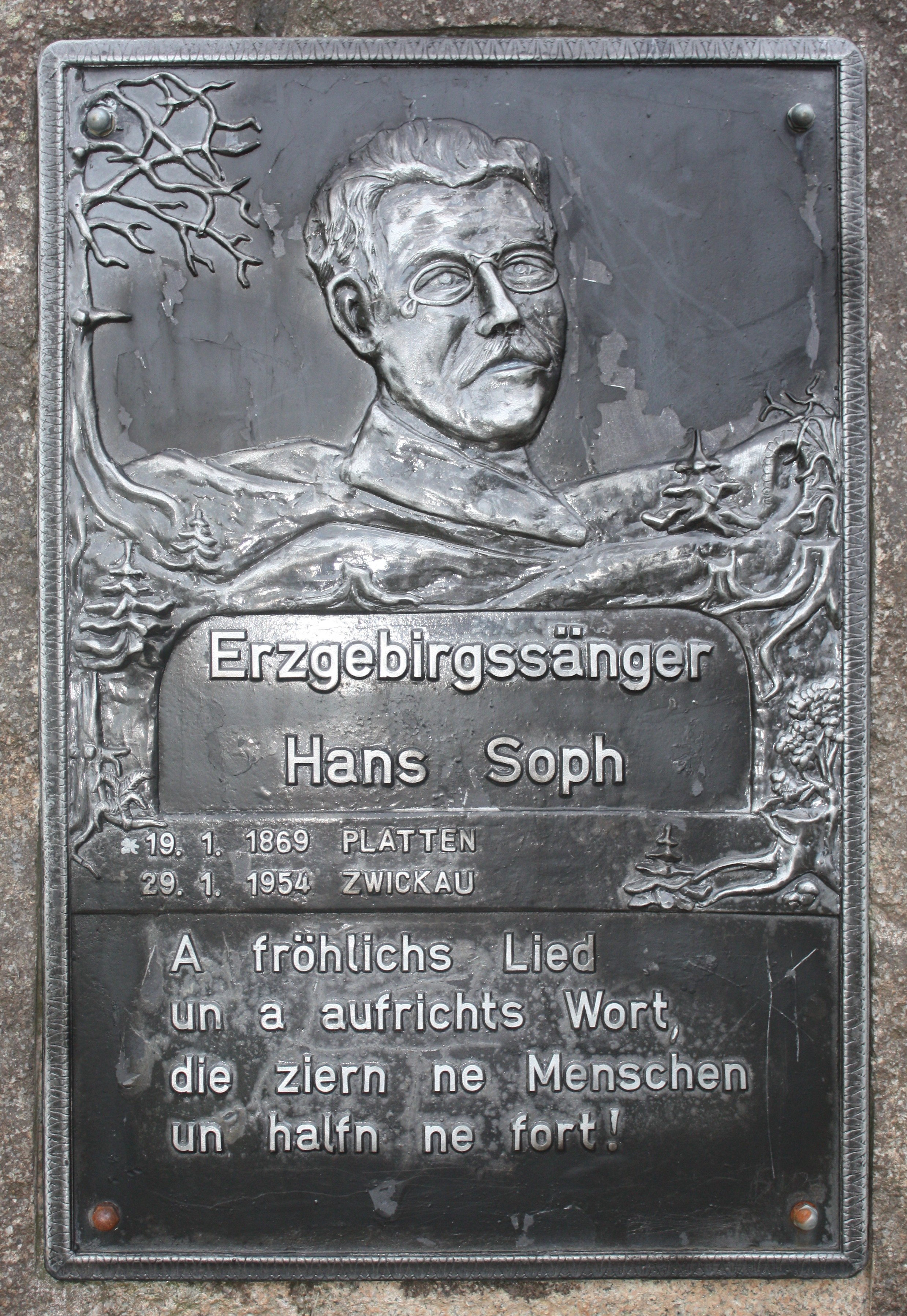 Hans Soph plaque, Johanngeorgenstadt, Germany